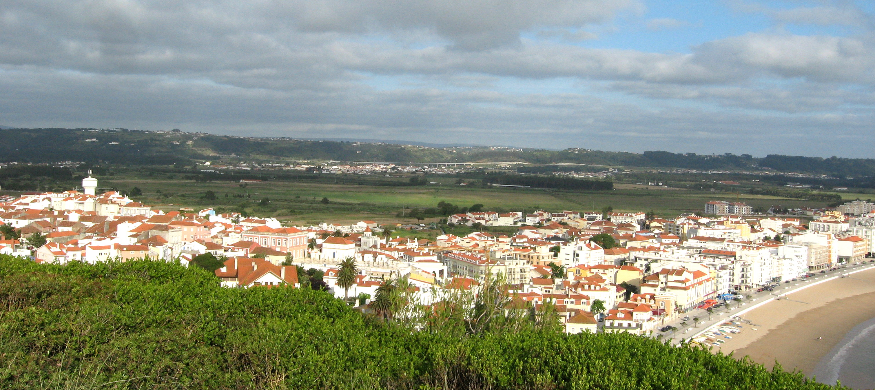 Alcobaça, Portugal, Mosteiro de Alcobaça, Coutos de Alcobaça, County of the old Abbey; view from São Martinho do Porto to Alfeizerão and the former lagoon